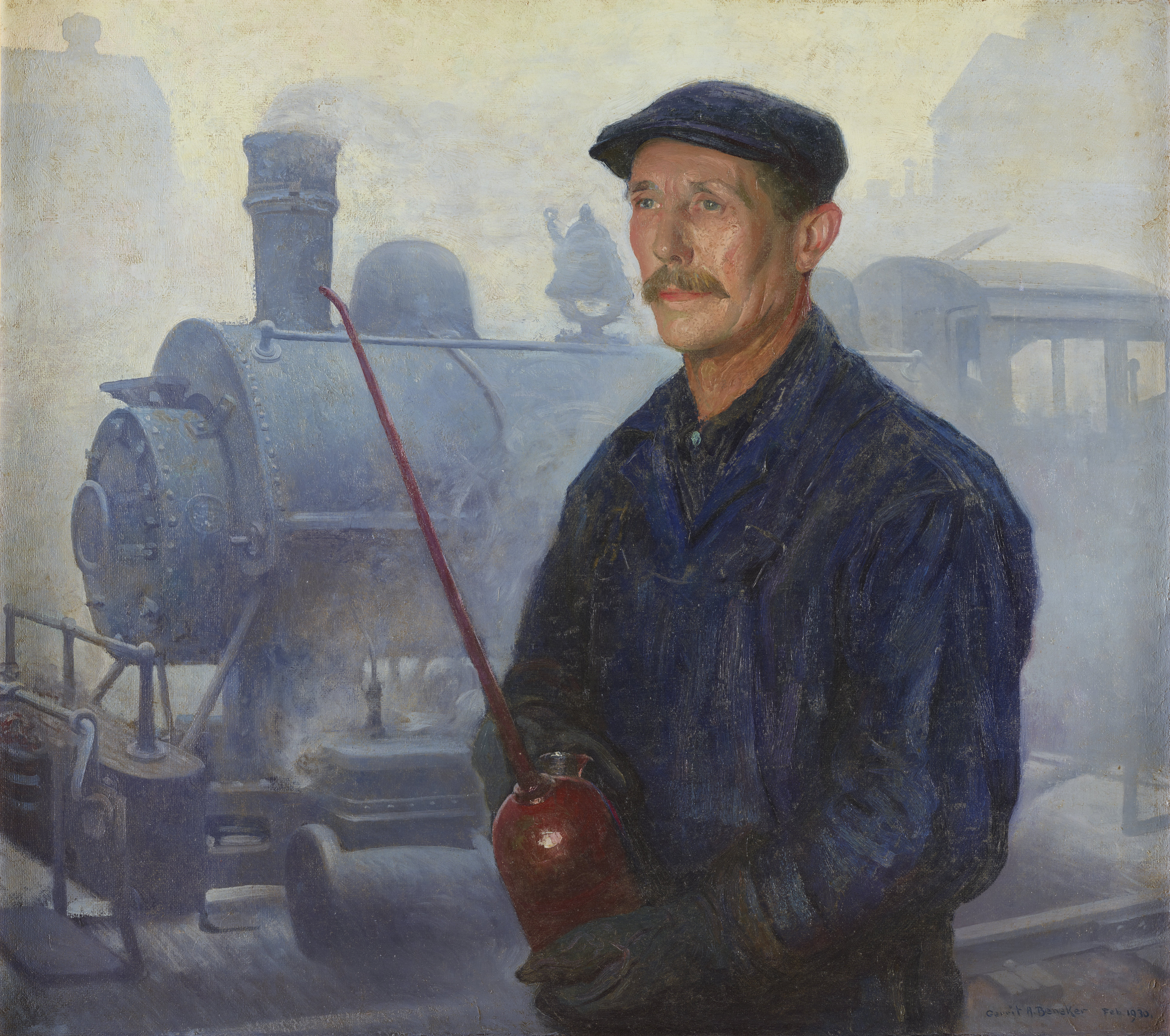 Portrait of Reinhart Geiger, locomotive engineer, standing, facing left; dressed in cap, blue coat, and gloves; holding oil can; locomotive in background; train tracks in lower right. Gilded frame with label: "REINHART GEIGER / LOCOMOTIVE ENGINEER / EMPLOYED 1897-1940". Artist Gerrit A. Beneker (1882-1934) was an American painter and illustrator, particularly known for his paintings of American industry in the 1920s. Otto Haas commissioned Beneker to paint a series of pictures showing Bridesburg employees.